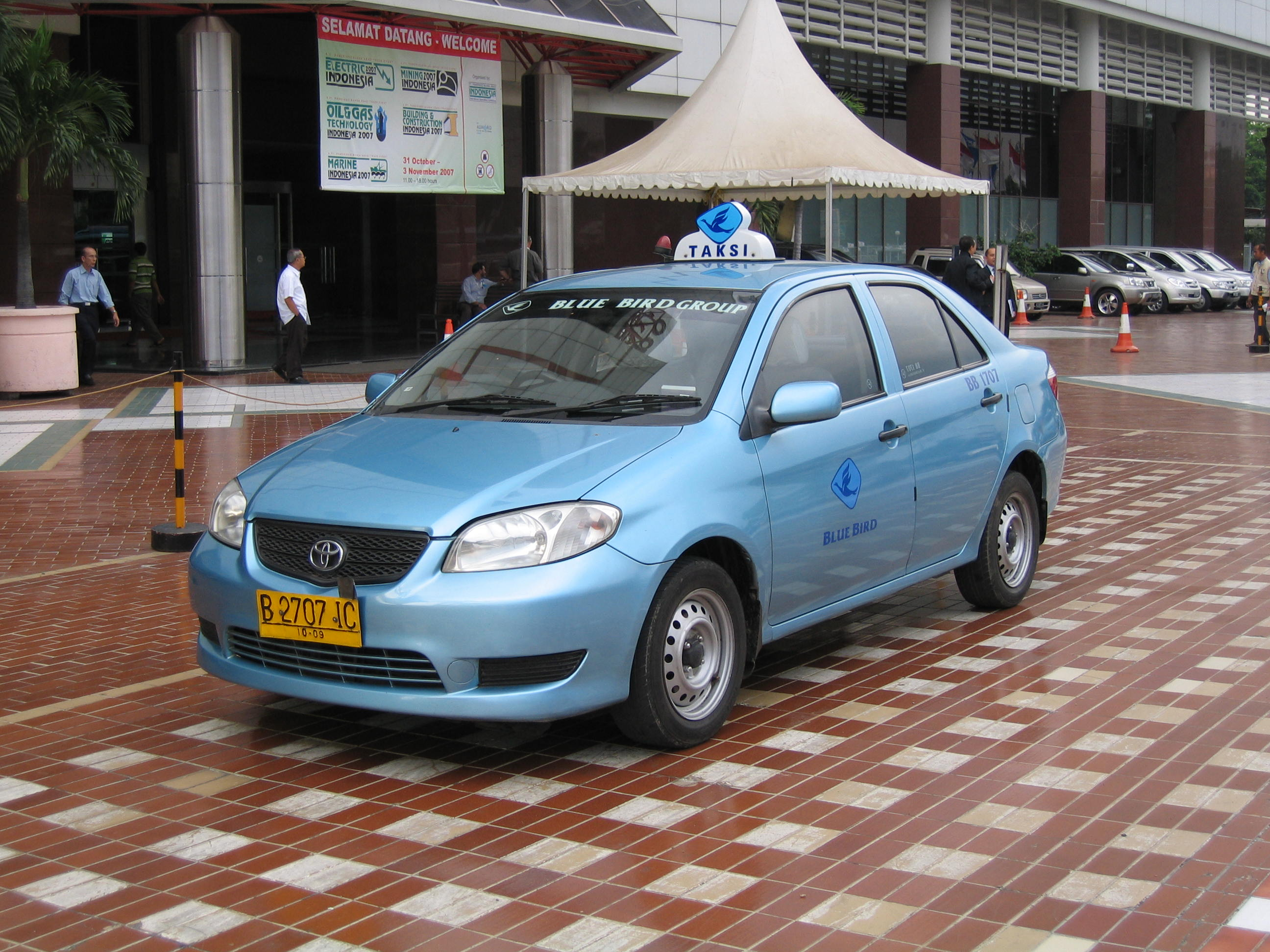 Toyota Vios Limo 1.5 (NCP42) "Blue Bird" Taxi in Jakarta, Indonesia